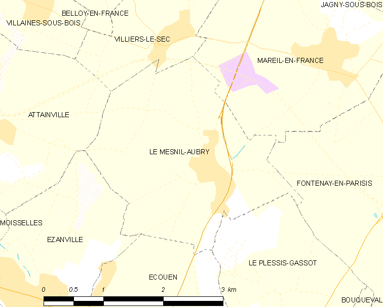 Map of French municipality Le Mesnil-Aubry